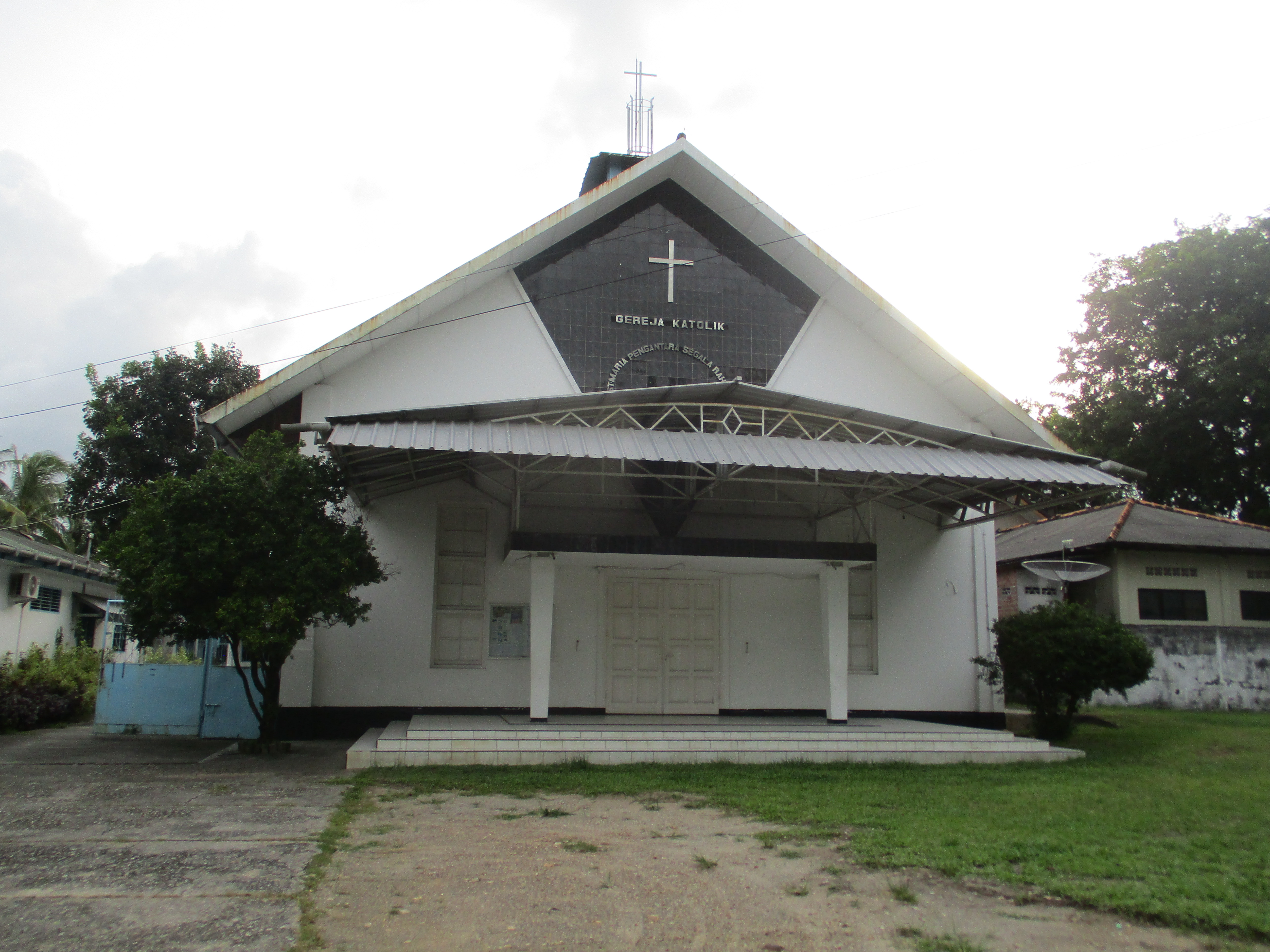 Gereja Katolik Maria Pengantara Segala Rahmat Sungailiat 烈港天主教會